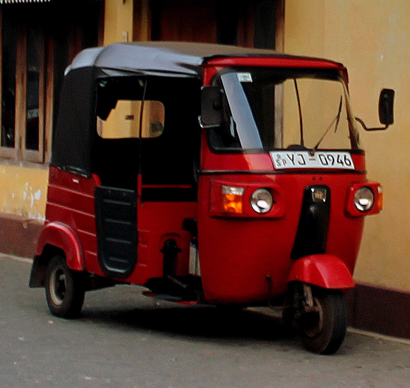 Bajaj auto-rickshaw next to the Galle Fort in Sri Lanka